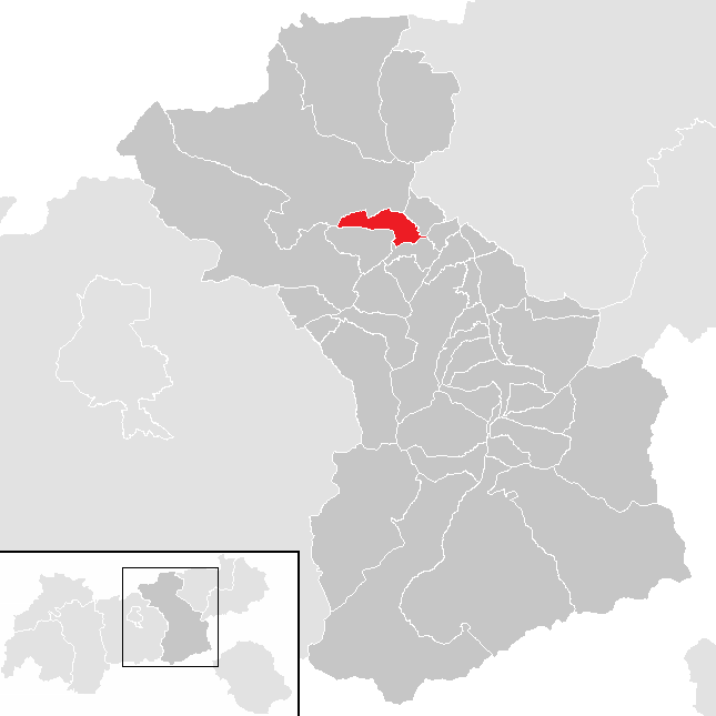 District Schwaz